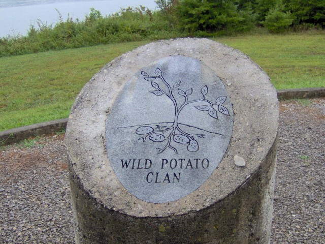 The Wild Potato Clan pillar at the Chota Monument in Monroe County, Tennessee, in the southeastern United States. This pillar is one of eight pillars representing the seven Cherokee clans and the Cherokee Nation. The monument rests directly above Chota's ancient townhouse.